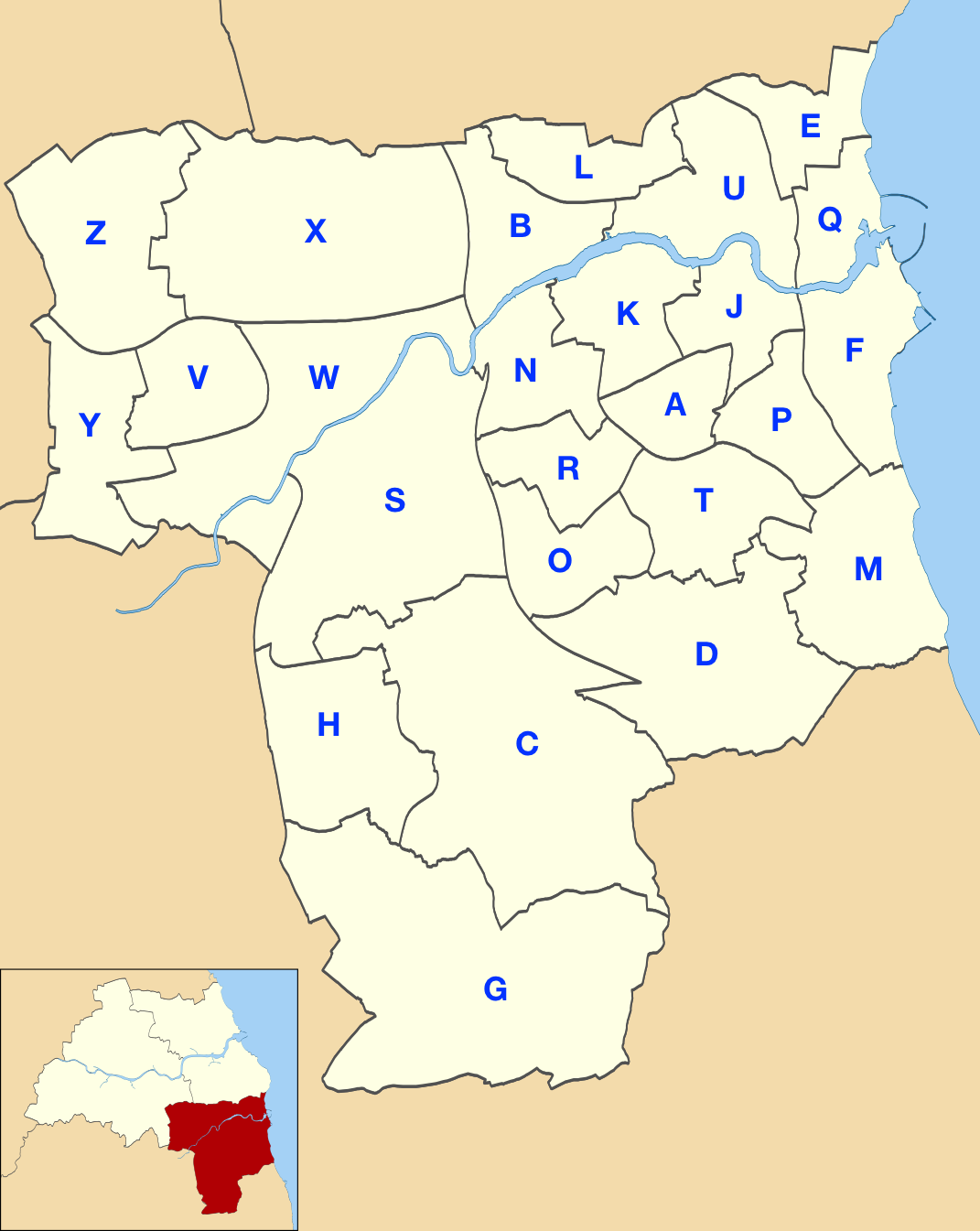 Sunderland Council area ward map with labels